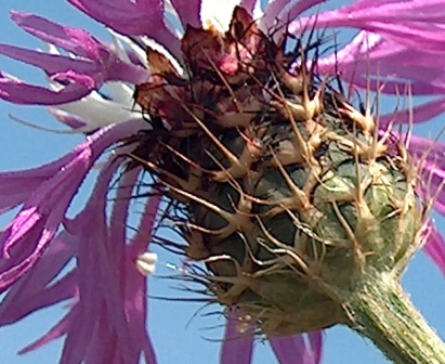 Centaurea napifolia, particular of the flower